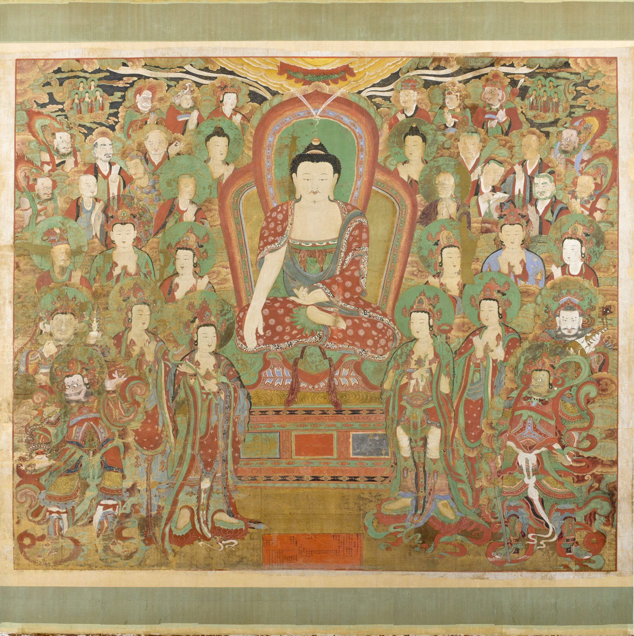 Korea, Korean, Joseon dynasty (1392-1910), dated 1755 Paintings Unmounted, ink and color on silk Image (approximately): 132 x 160 in. (335.28 x 406.4 cm) Far Eastern Art Acquisition Fund (AC1998.268.1) Korean Art